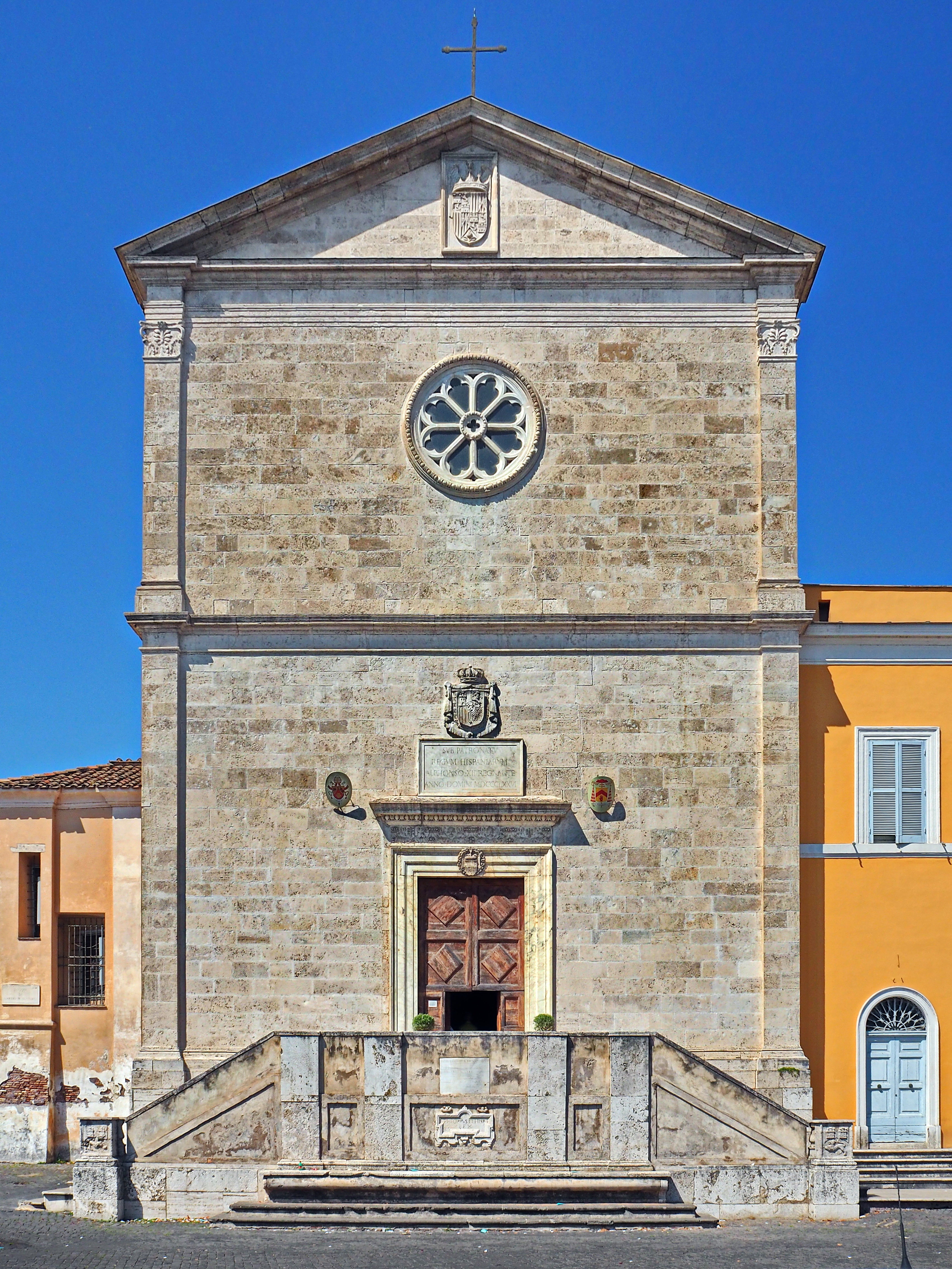 San Pietro in Montorio (Rome); Facade